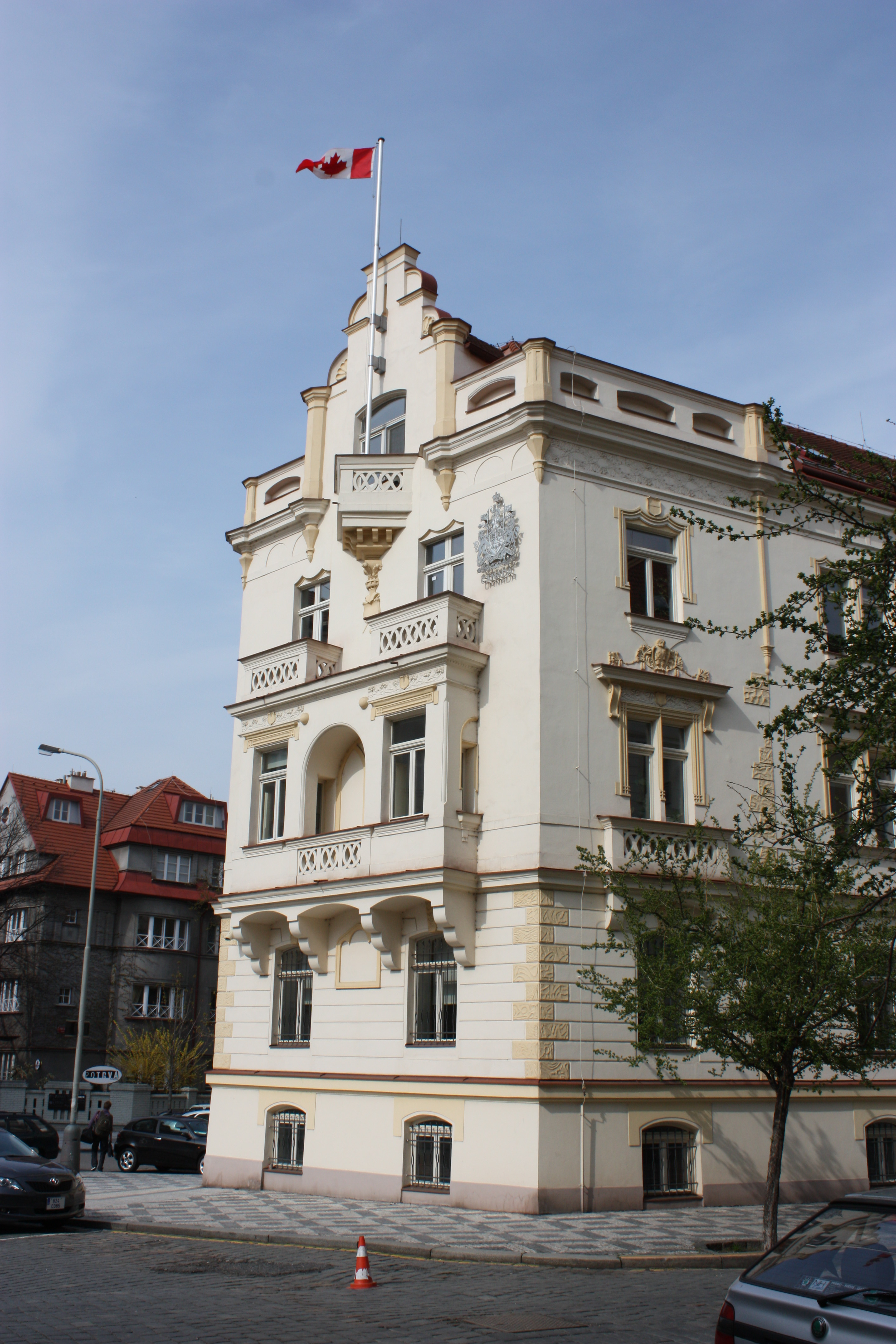 Canadian Embassy in Prague, Muchova 240/6, Prague 6 – Dejvice